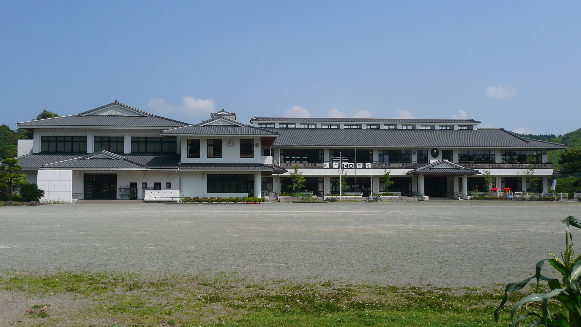 Iriki Elementary School (Satsumasendai City, Kagoshima Prefecture, Japan))